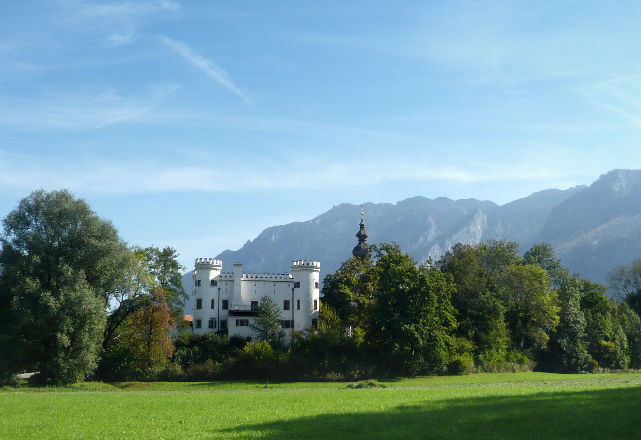 View to the Marzoll castle near Bad Reichenhall in Bavaria, Germany